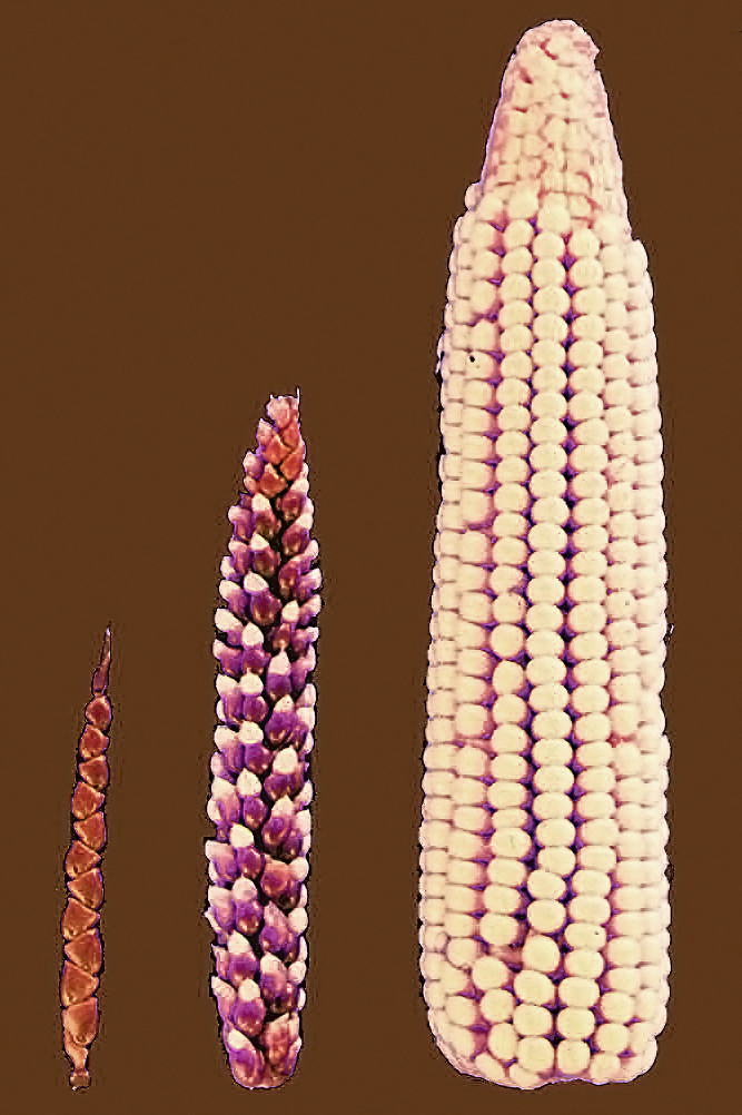 Over time, selective breeding modifies teosinte's few fruitcases (left) into modern corn's rows of exposed kernels (right).